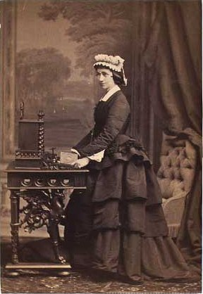 Johanne Luise Heiberg (1812-1890), Danish actress